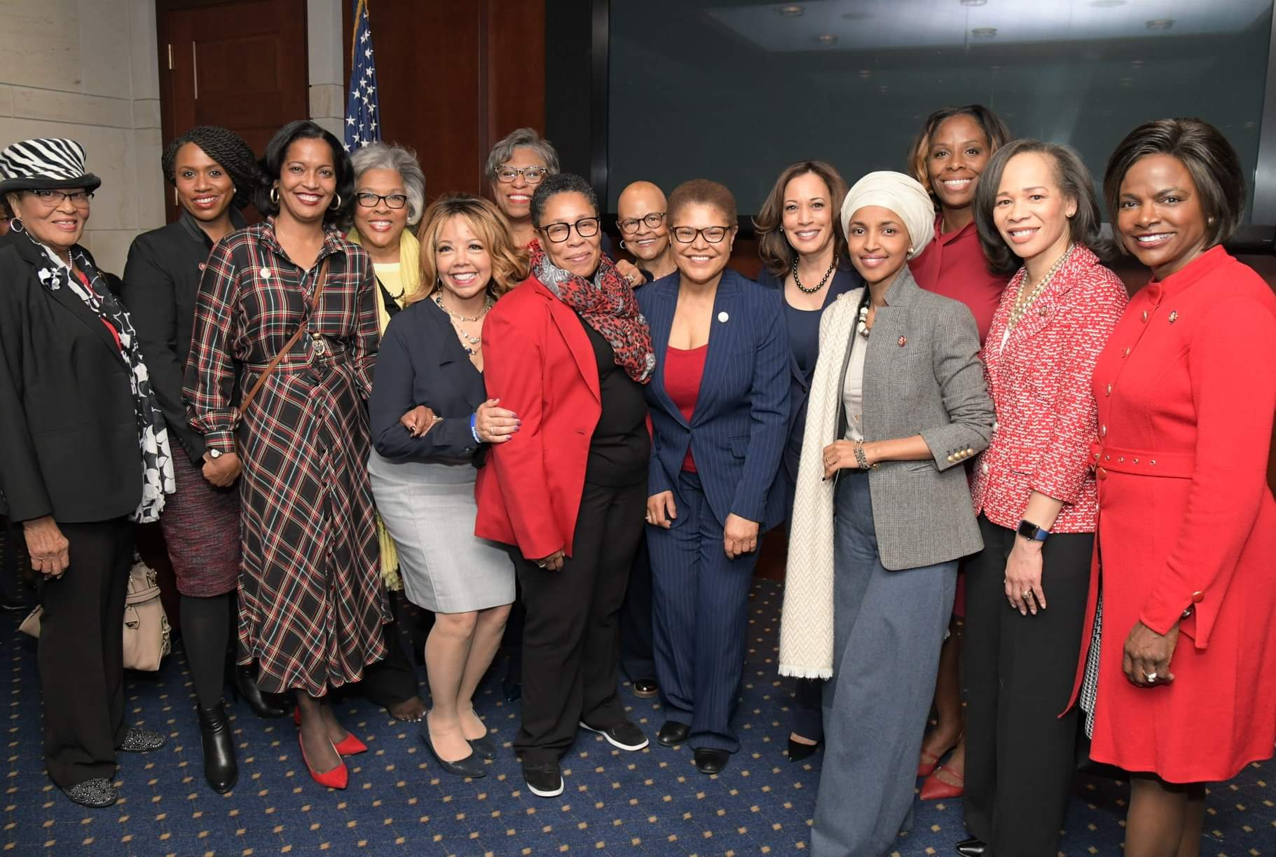 Kamala Harris